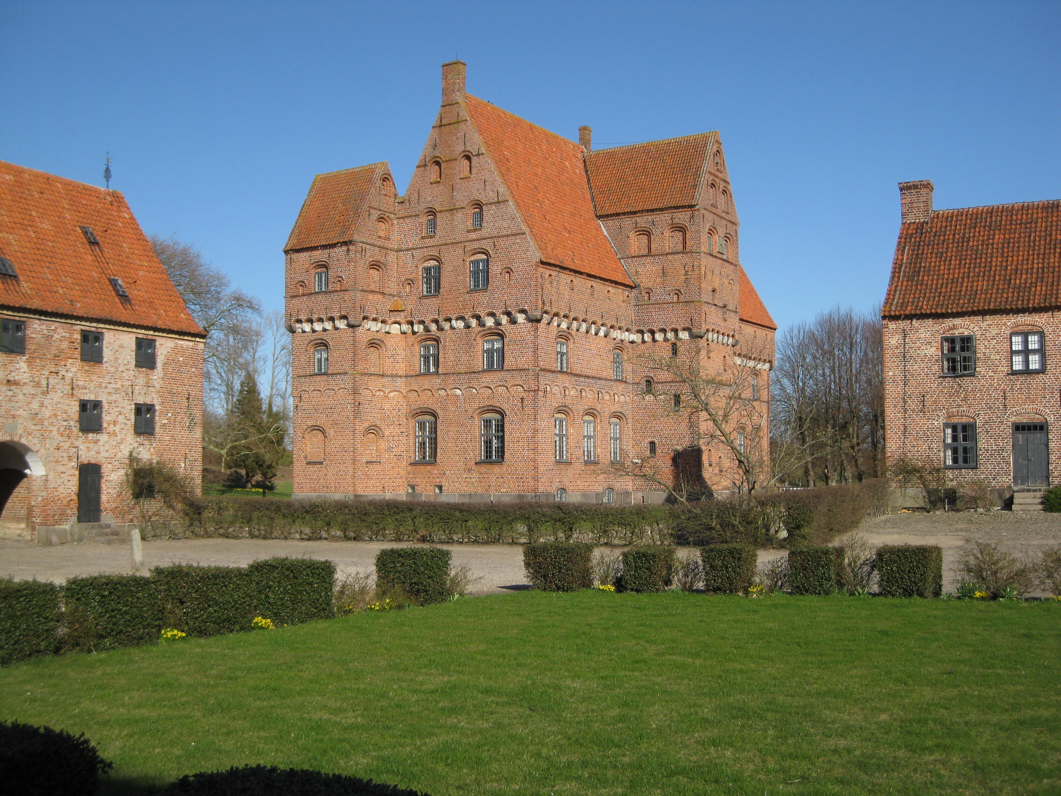 The castle "Borreby Slot" nearby the town Skælskør. The place is located in West Zealand, Denmark.